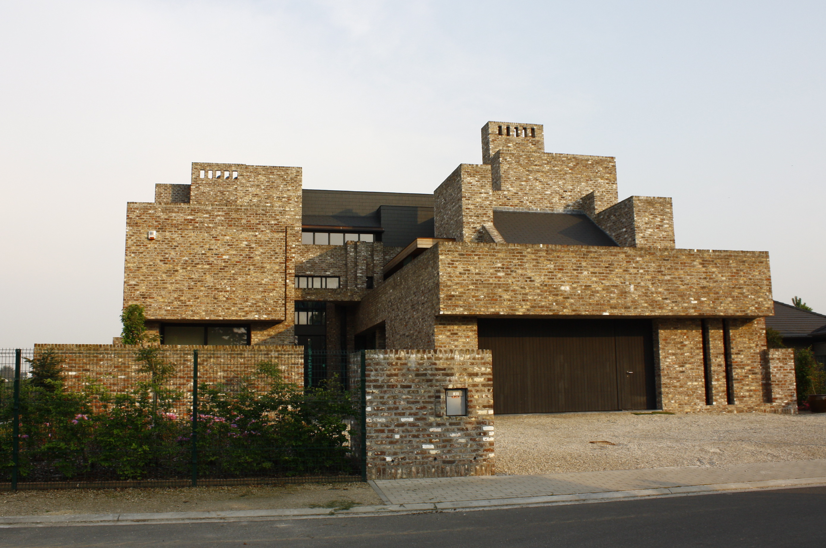 Influences of Frank Lloyd Wright are visable in the works of Jos Van Driessche (dwelling in Merelbeke)